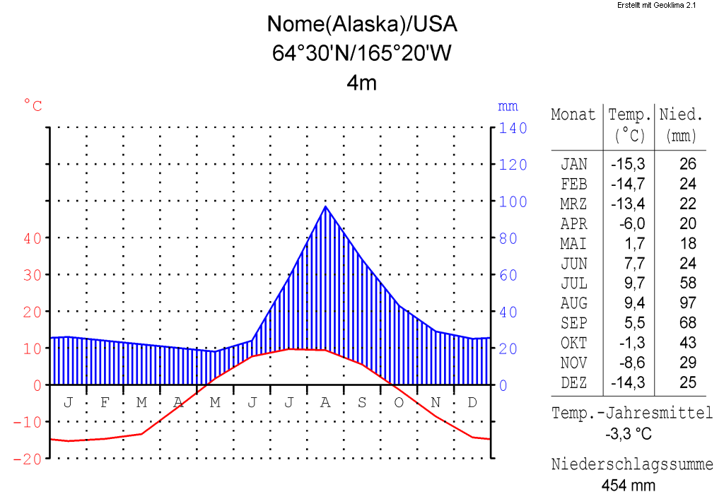 climate chart in the format by Walther and Lieth, metric, °Celsisus and millimeters, made with Geoklima 2.1